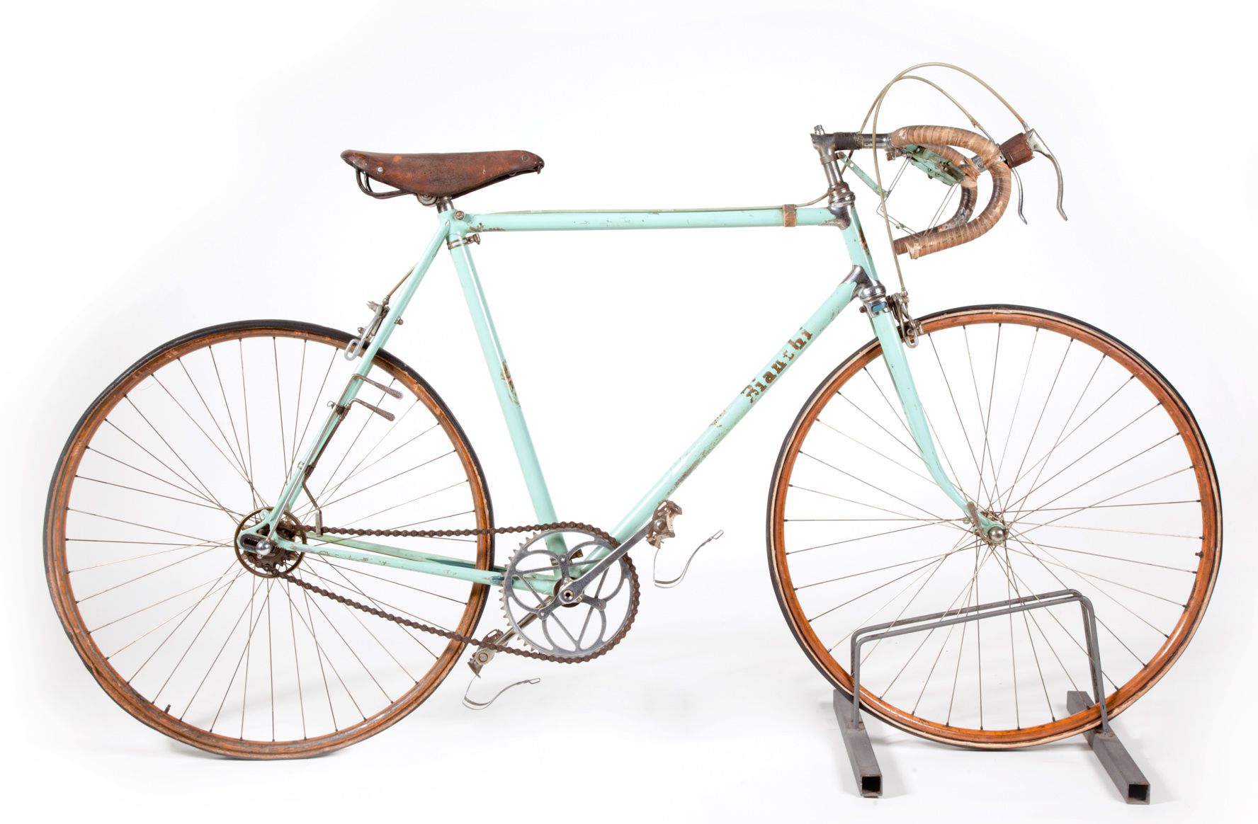 Museum source says this is either a 1950 bicycle, or it is somewhere in the range 1950 to 1952, not 1949. and